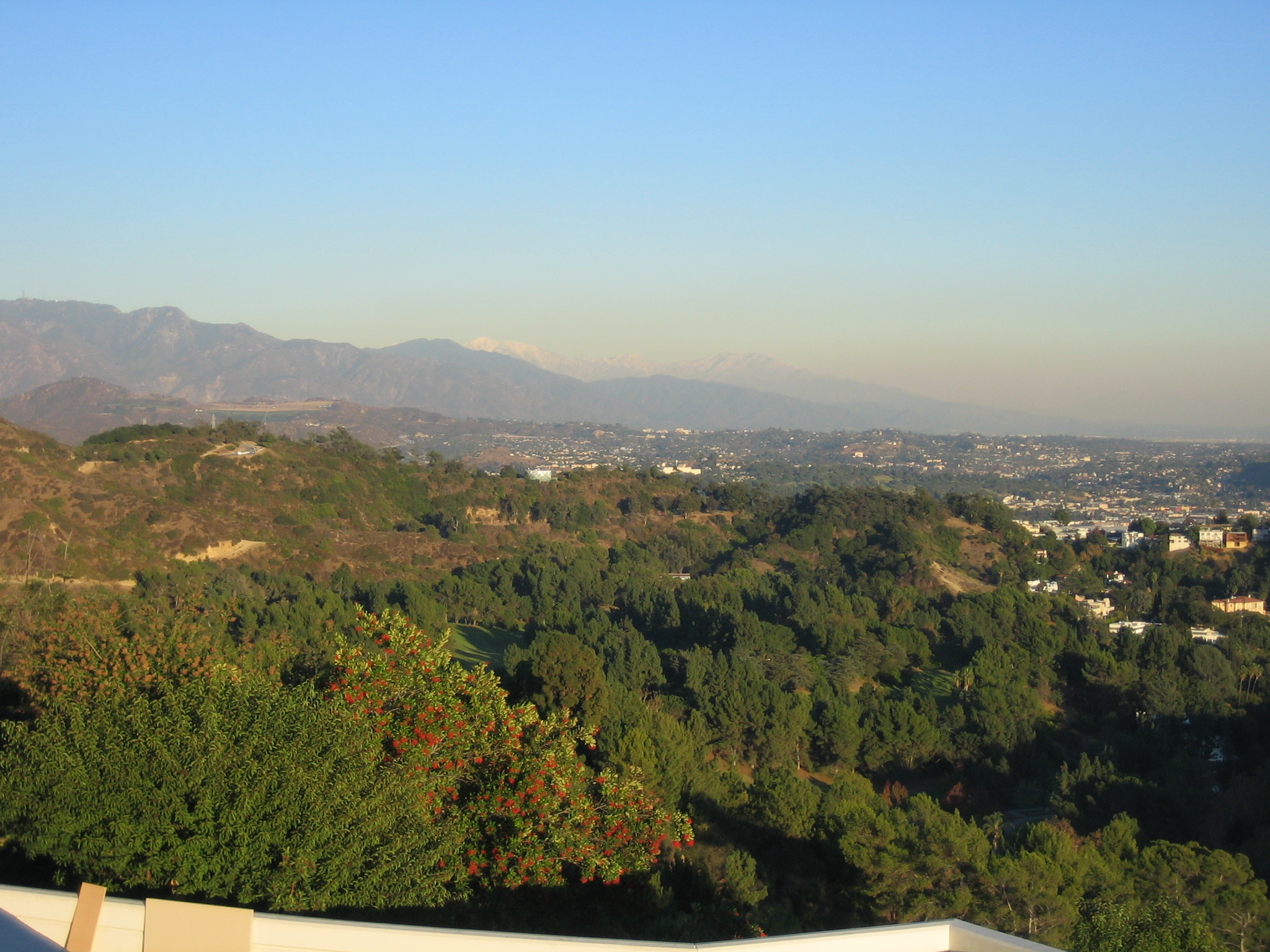 A view looking east of the south-eastern portion of Griffith Park in Los Angeles, California from Griffith Observatory. The Eagle Rock community of Los Angeles and the city of Pasadena can be seen in the distance in the center.